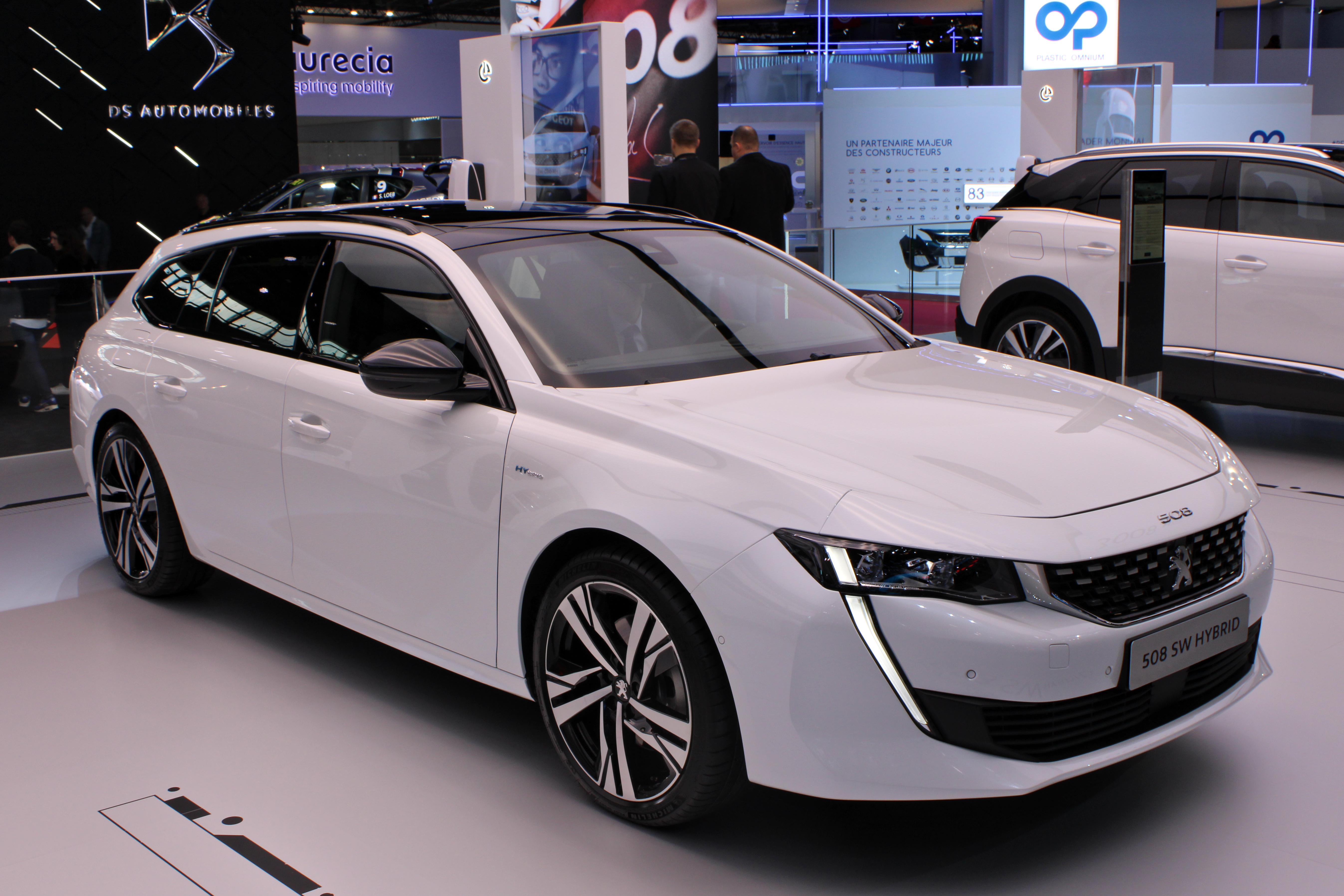 Peugeot 508 SW Hybrid at Paris Motor Show 2018